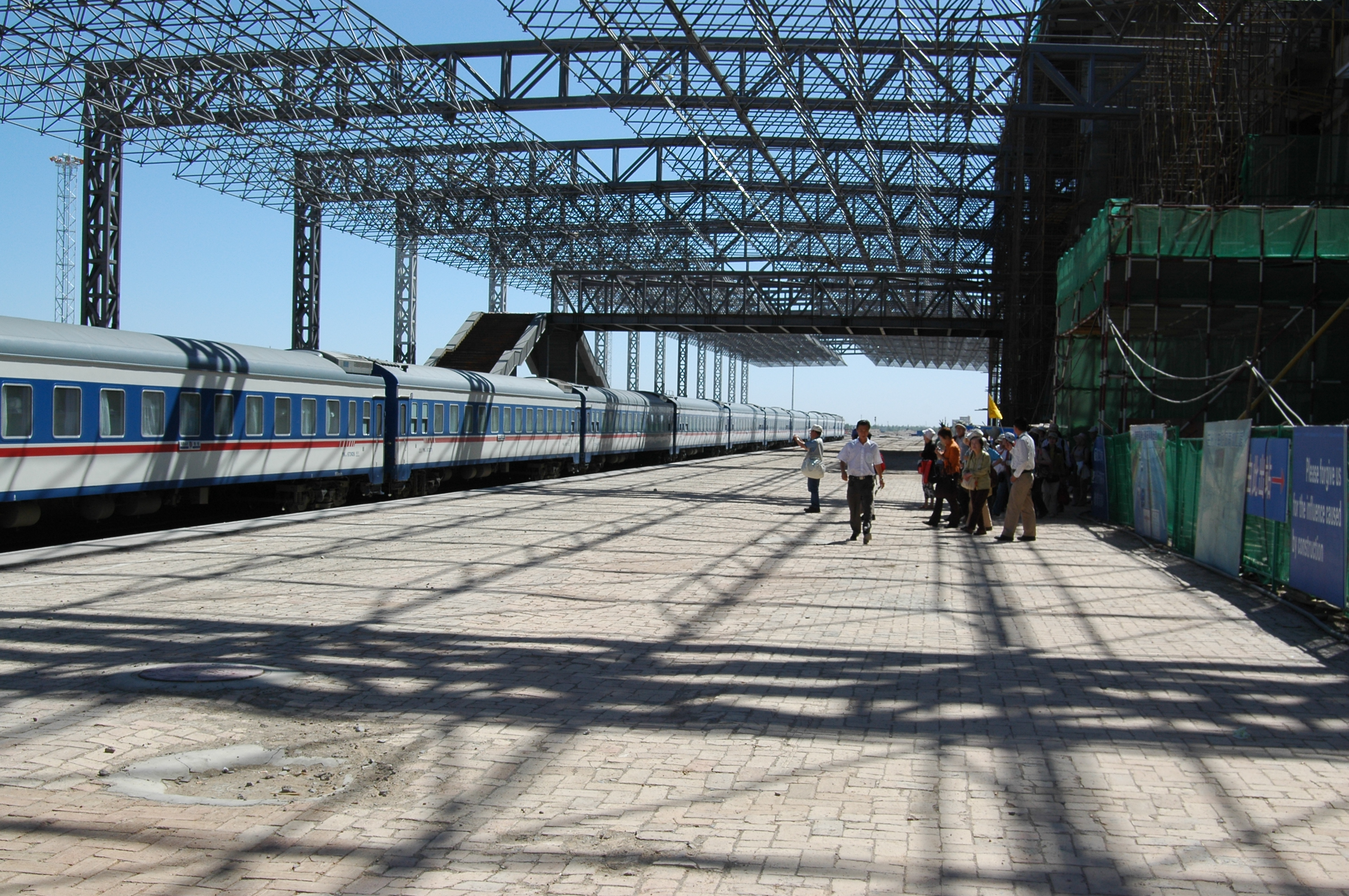 Dunhuang railway station 敦煌站